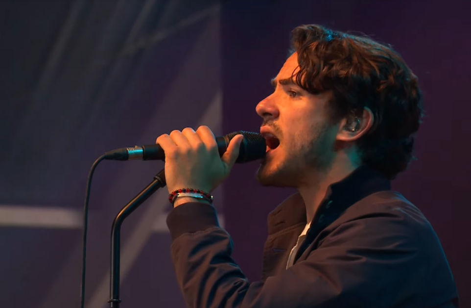 British singer Jack Savoretti performing in 2019.